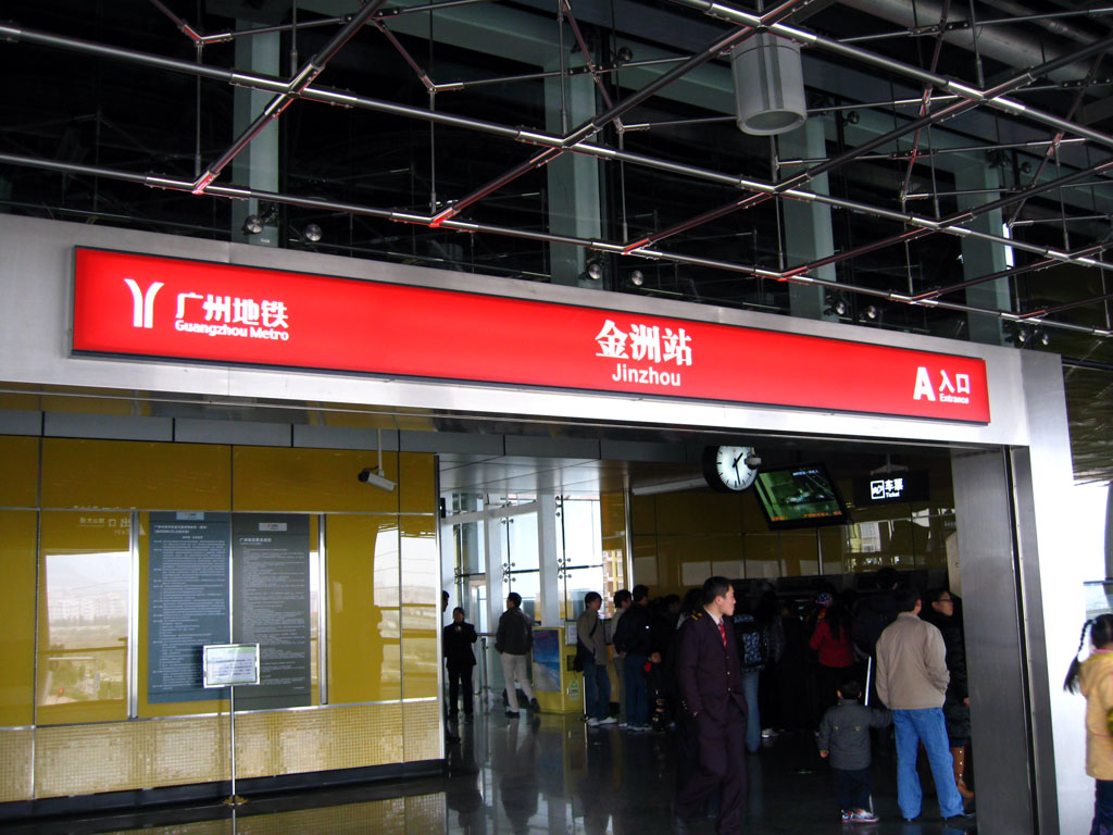 Jinzhou Station of Guangzhou Metro Line 4 in Guangdong Province, China